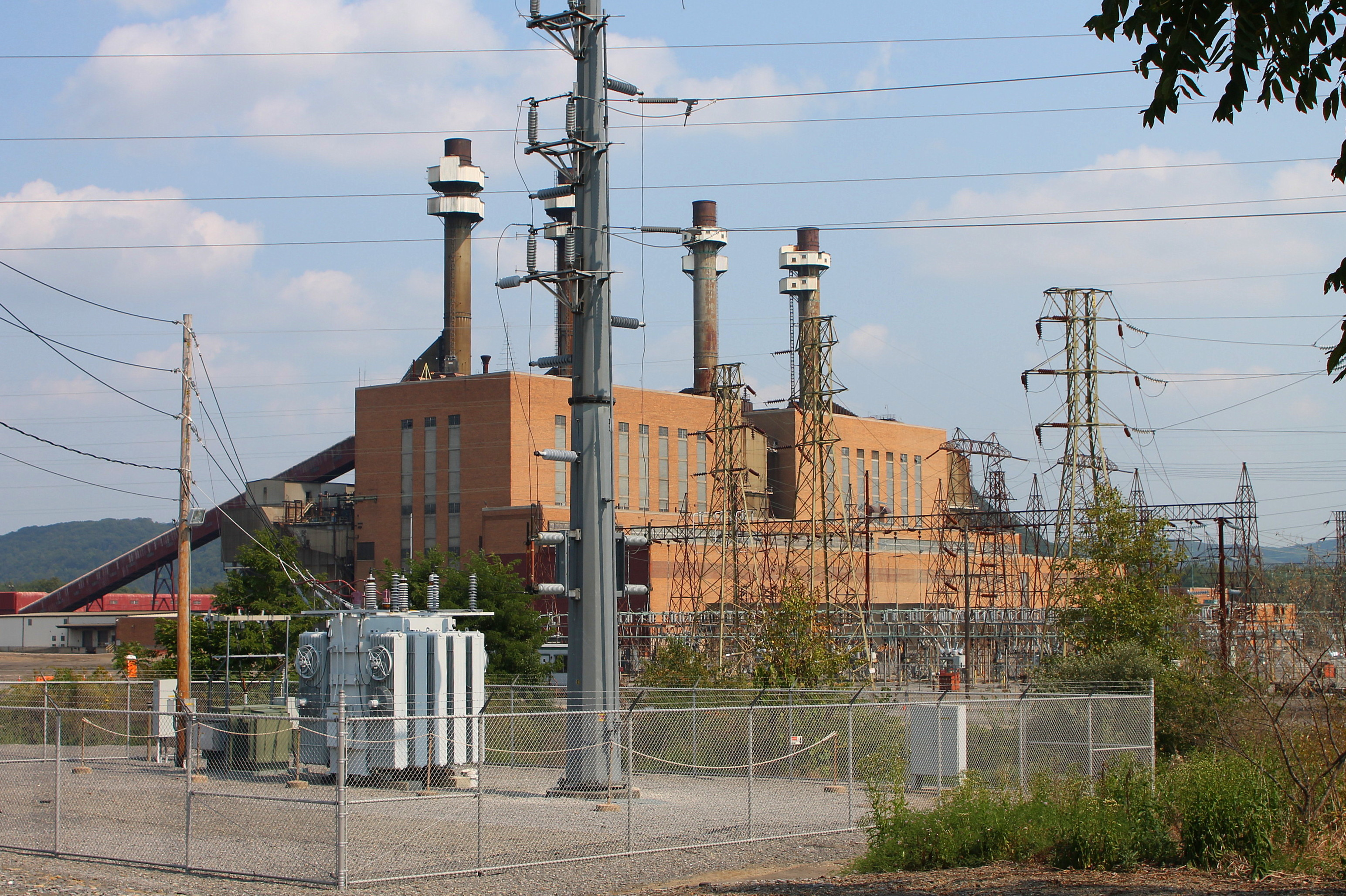 Sunbury Limited LP building in Monroe Township, Snyder County, Pennsylvania